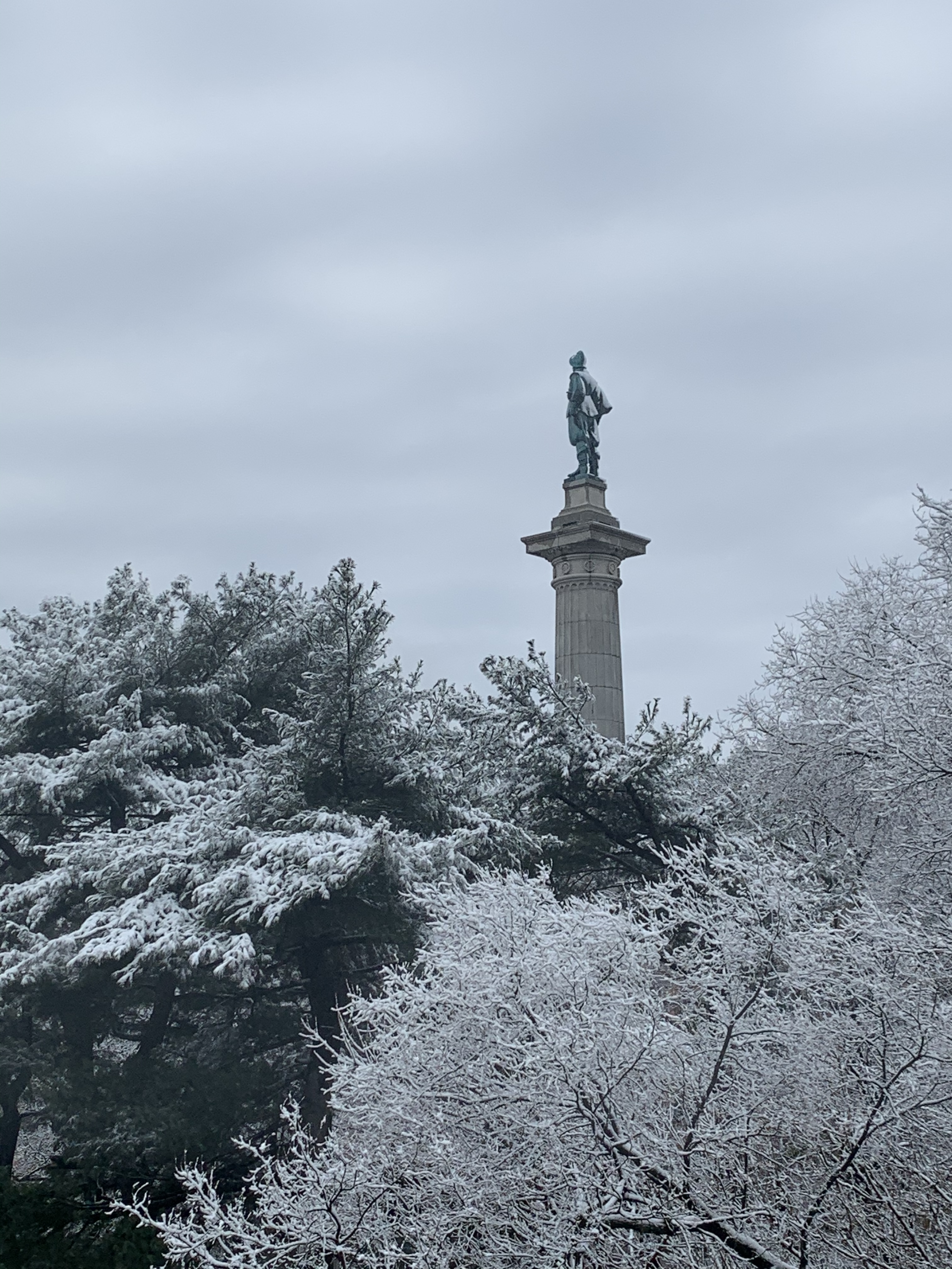 The statue of Henry Hudson in Henry Hudson Memorial Park in Spuyten Duyvil.